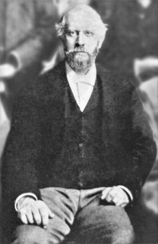 The English stained glass artist Christopher Whitworth Whall (1849–1924) at the Royal College of Art, London 1902